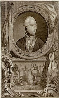 Engraved portrait of Commodore Charles Fielding, shortly before his death in 1783